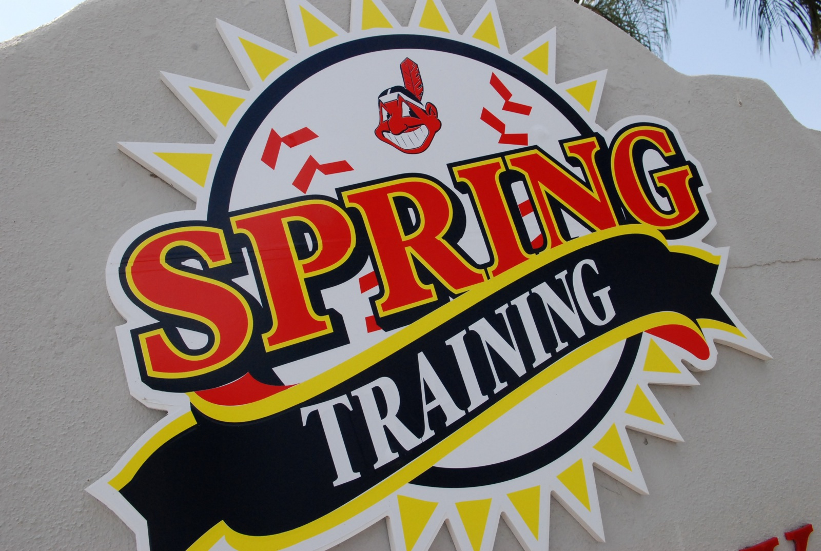 Chief Wahoo appears on a sign advertising spring training for the Cleveland Indians in Winter Haven, Florida, circa 2007. At the team's new spring training grounds in Arizona, the logo is not prominently displayed.